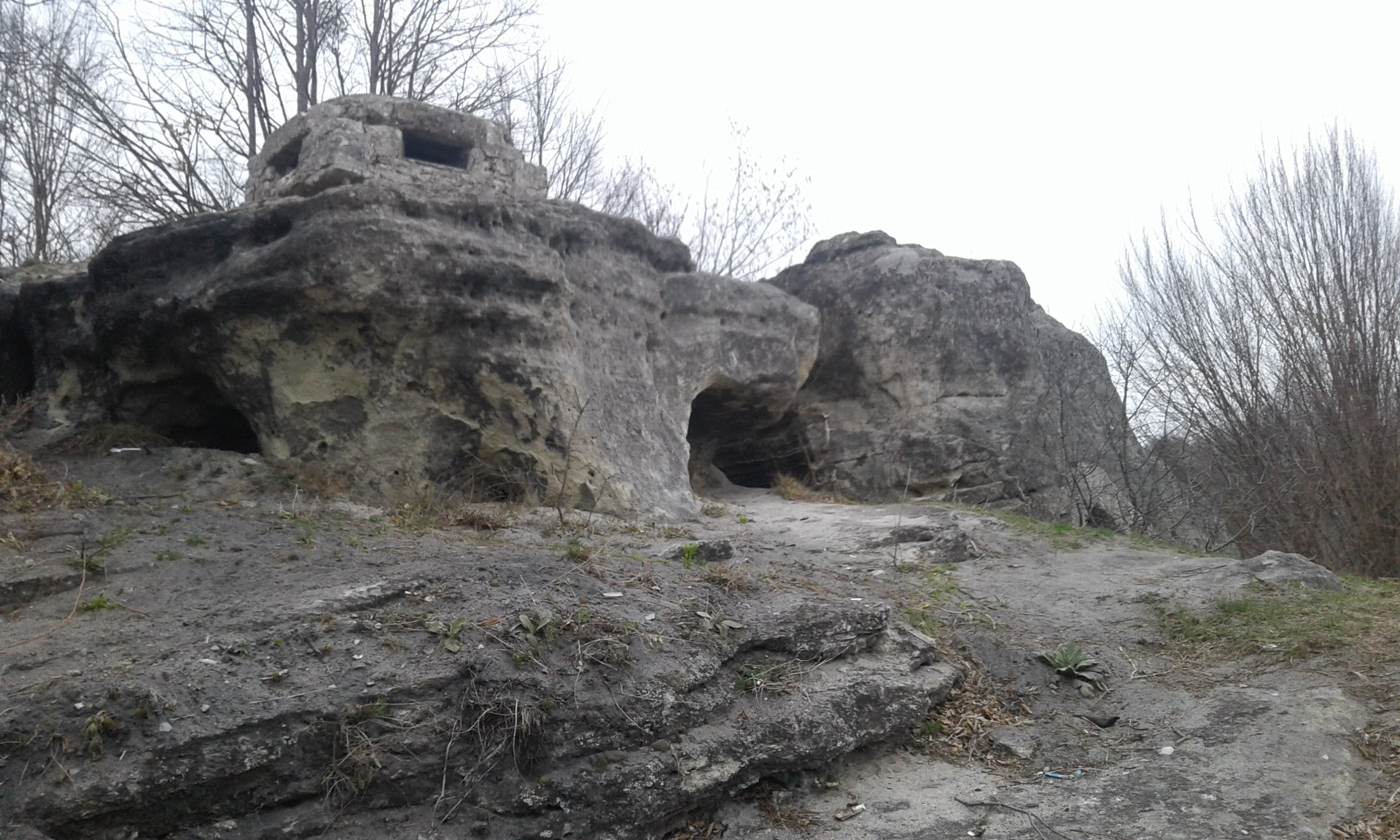 Myk castle 3